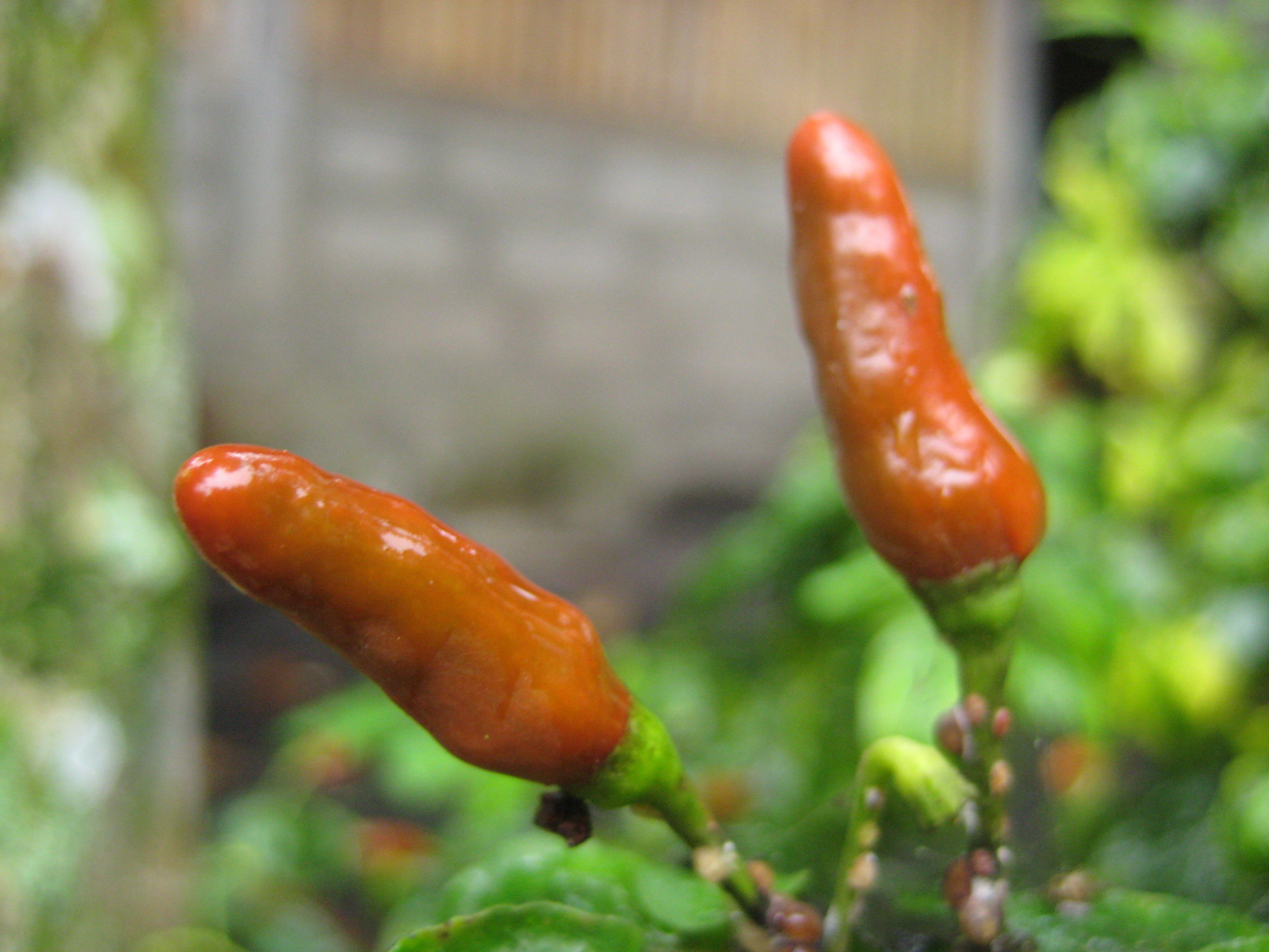 Rawit: little chili peppers, mainly used in the Indonesian kitchen (come in red and green)